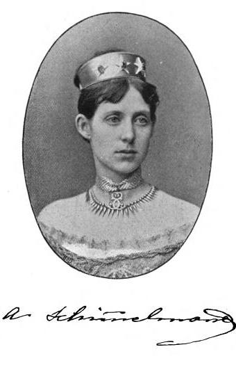 Portrait photograph of de;Adeline von Schimmelmann a a young woman